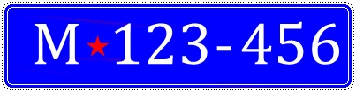 Police plate of SFR Yugoslavia